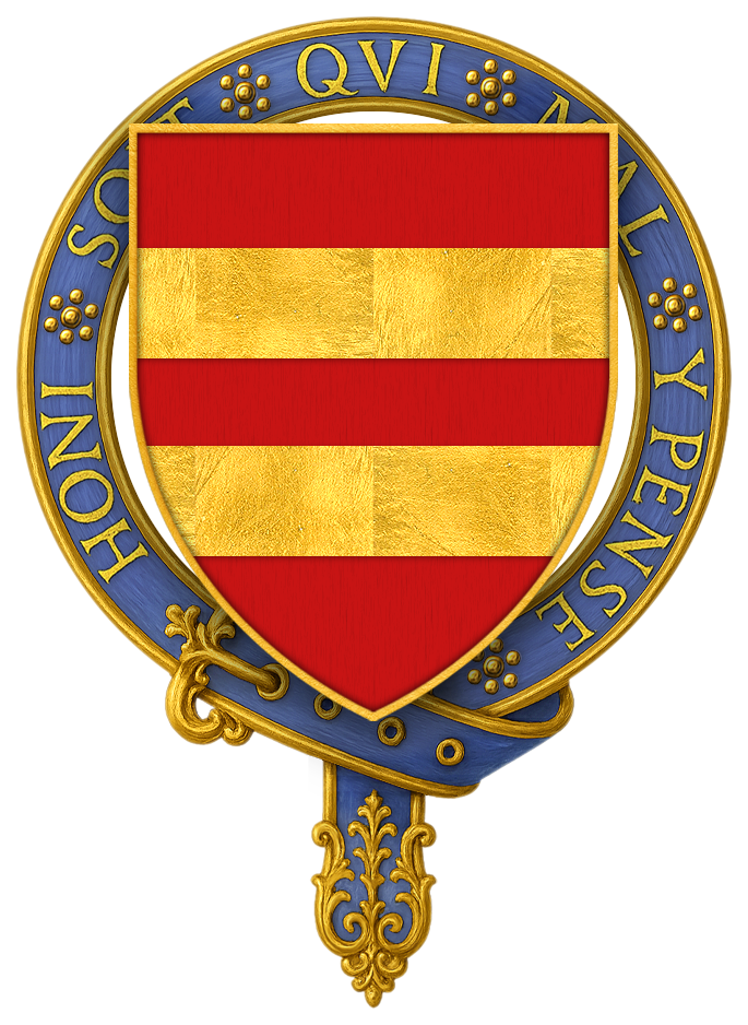 Sir Robert Harcourt, KG HOPE, W. H. St. John, The Stall Plates of the Knights of the Order of the Garter 1348 – 1485: A Series of Ninety Full-Sized Coloured Facsimiles with Descriptive Notes and Historical Introductions, Westminster: Archibald Constable and Company LTD, 1901. “ Plate LXXIII - Sir Robert Harcourt, K.G. 1461-1470… bearing the arms, gules two bars gold... ” Harcourt's stall plate remains intact within the twenty-fourth stall, on the Prince's side of the chapel.